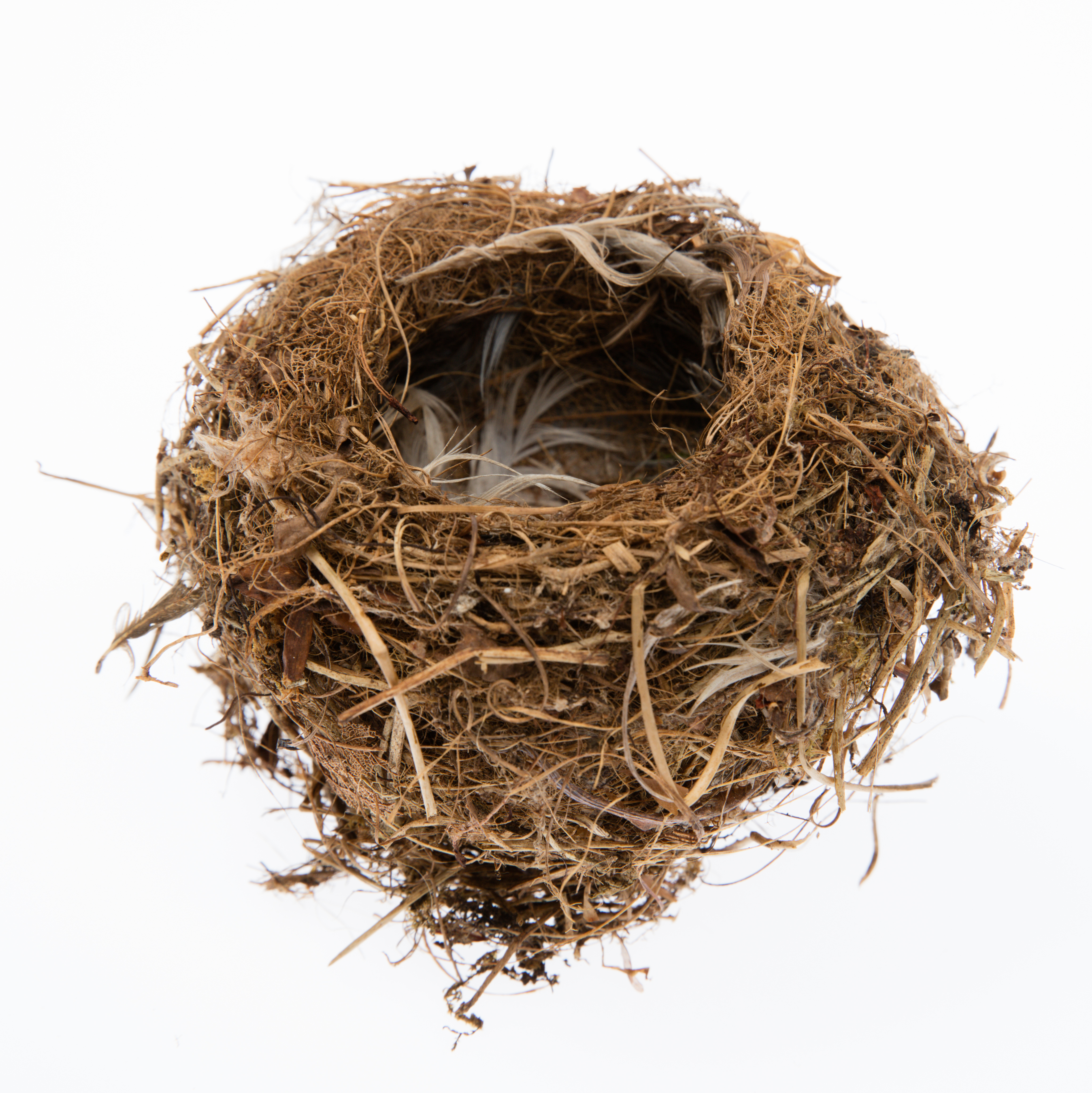 Mohoua novaeseelandiae nest from the collection of Auckland Museum